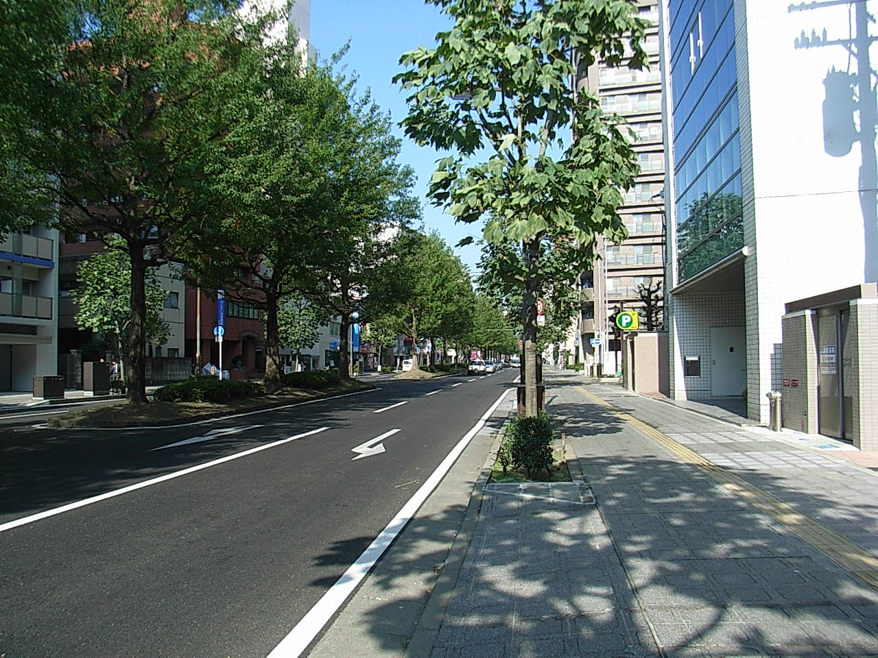 Itsutsubashi Avenue. Sendai, Miyagi prefecture, Japan.